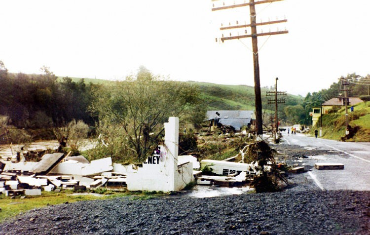 ALL USERS OF THIS IMAGE ARE REQUIRED TO ATTRIBUTE THIS WORK TO PETER TERRY.